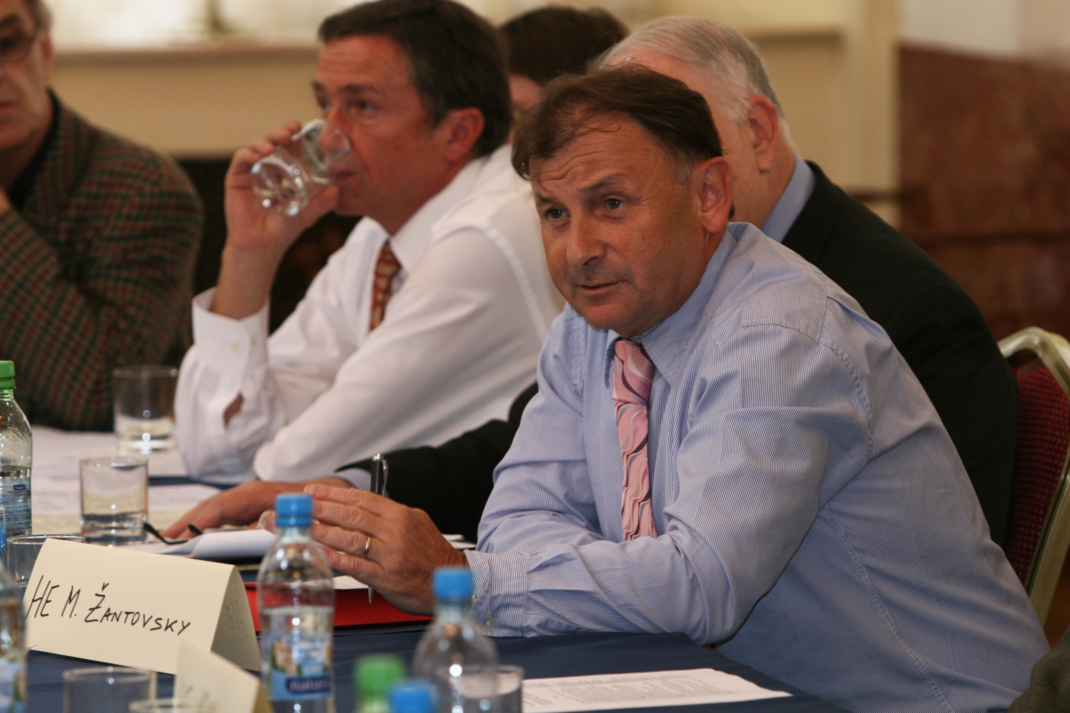 Czech politician and diplomat Michael Žantovský at Prague Society discussion